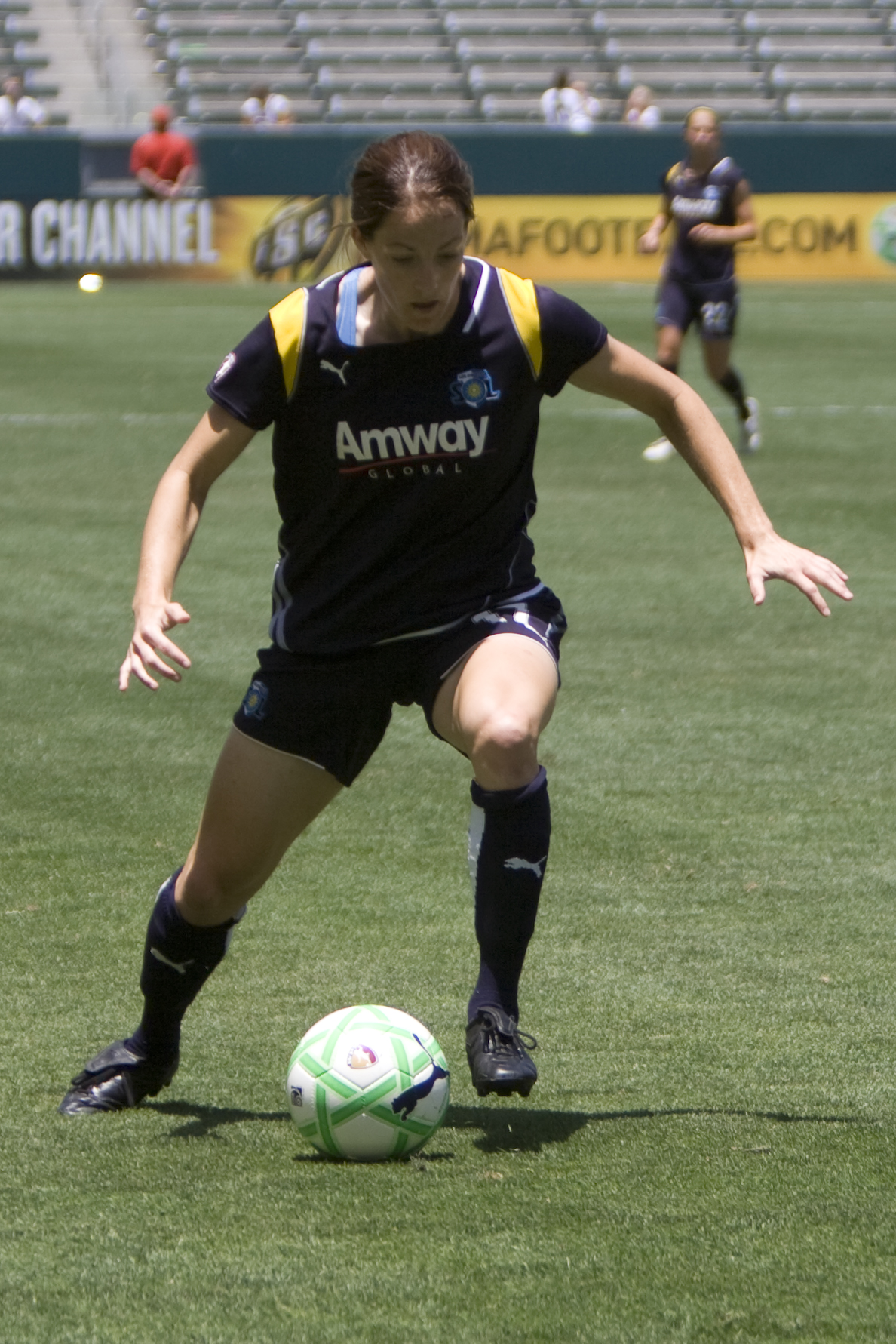 WPS 2009-July-08